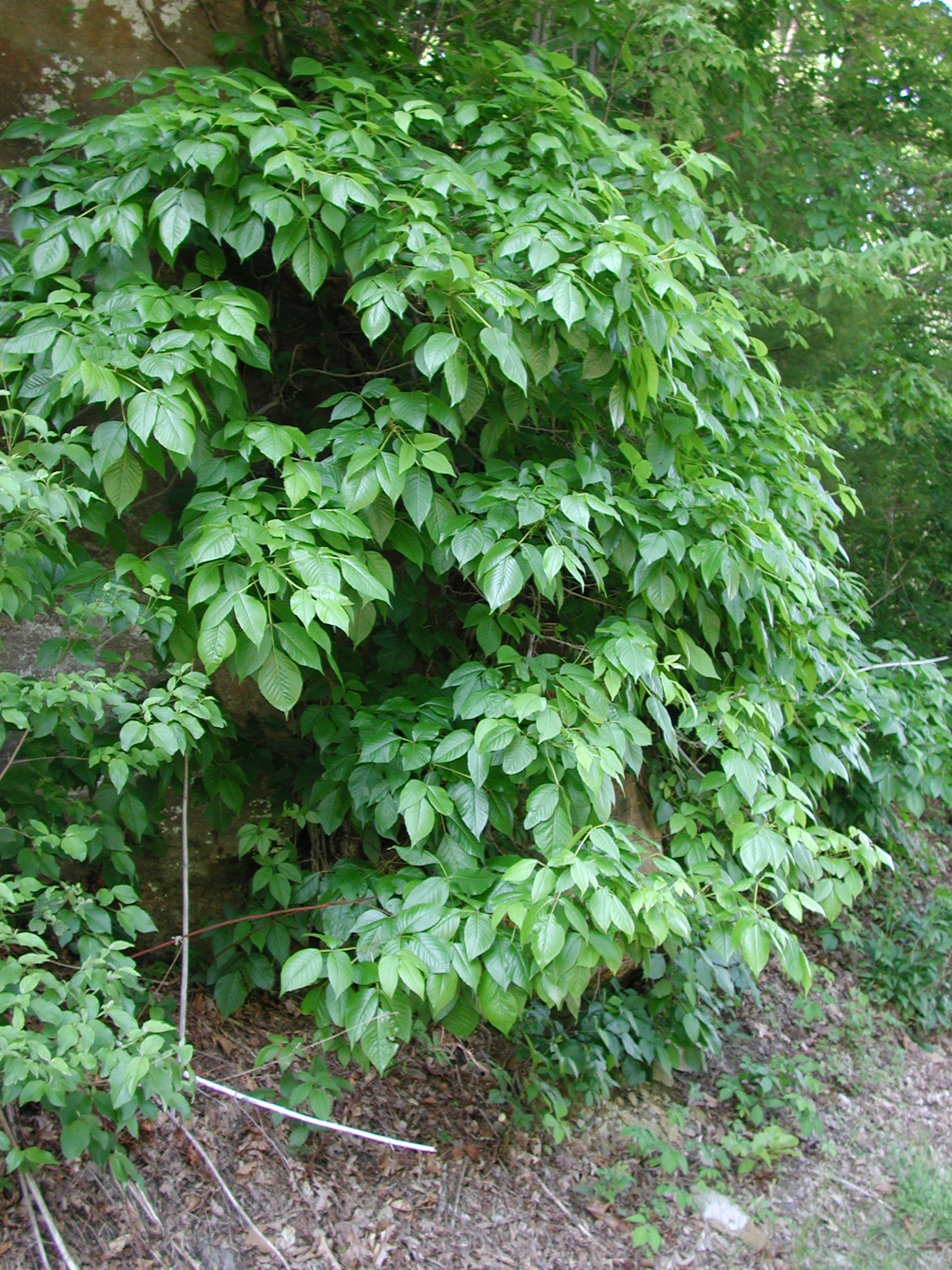 Poison ivy on a road bank, on Ohio State Route 278 in the Zaleski State Forest, Vinton County, Ohio